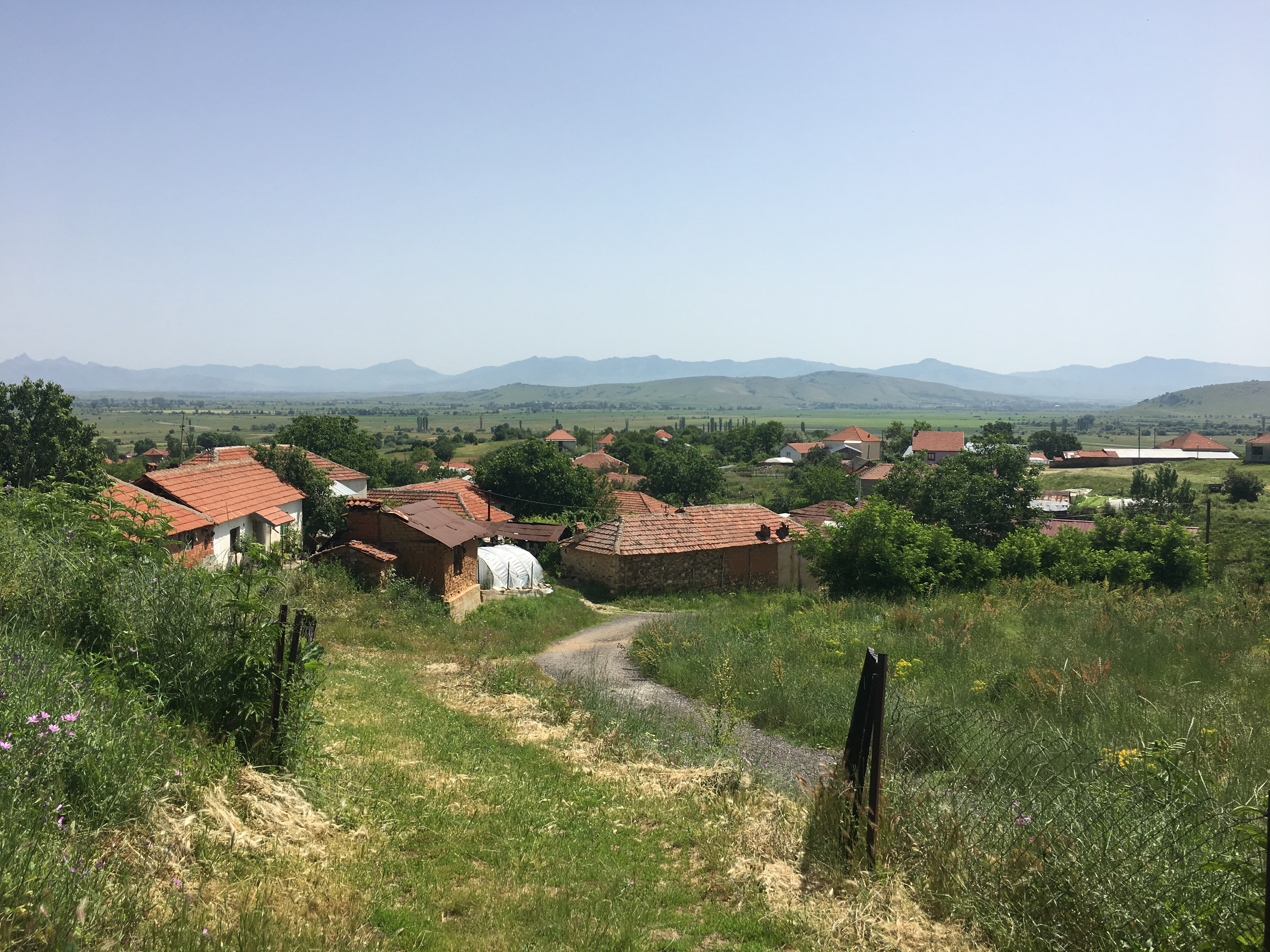 A view of the village of Sveto Todori